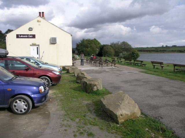 Lakeside Cafe Visitors to Thrybergh Country Park take advantage of the break in the rain to relax by the reservoir.